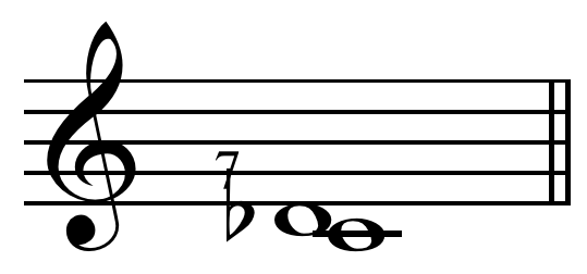 Septimal chromatic semitone on C = D♭ (Ben Johnston's notation). 21:20 = 84.47 cents. Limit: 7-limit.